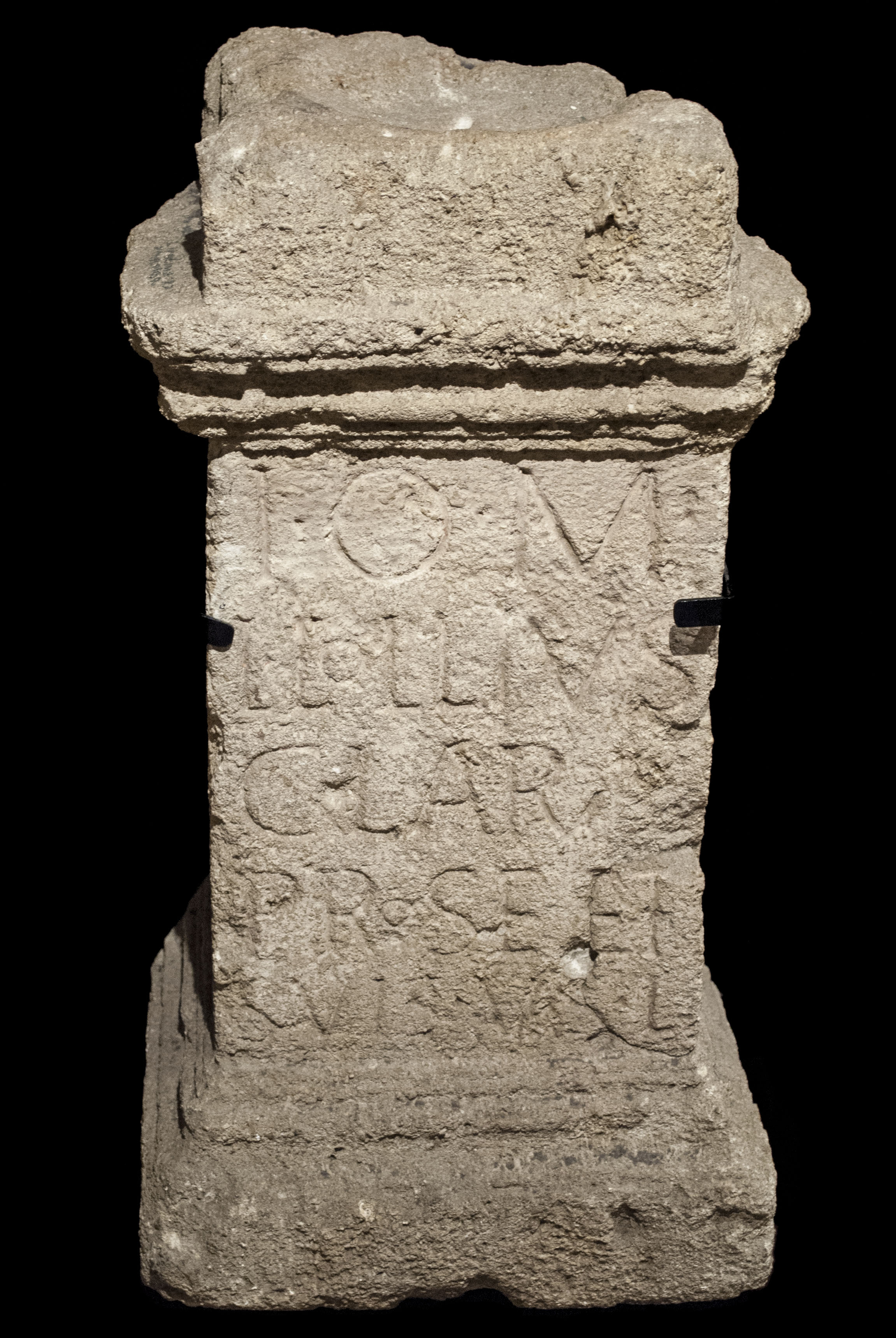 Worshipping altar to Jupiter Optimus Maximus. Vienna 1, Himmelpfortgasse - corner Kärntnerstrasse, 1906. From the outskirts of the legionary fortress, 2nd - 3rd century A.D. Inscription: Dedicated by L. Lollius Clarus for himself and his family. AEA 2005, 36 = AEA 2010, 6, Viena: I(ovi) O(ptimo) M(aximo) / L(ucius) Lollius / Clarus / pro se et / suis v(otum) s(olvit) l(ibens)